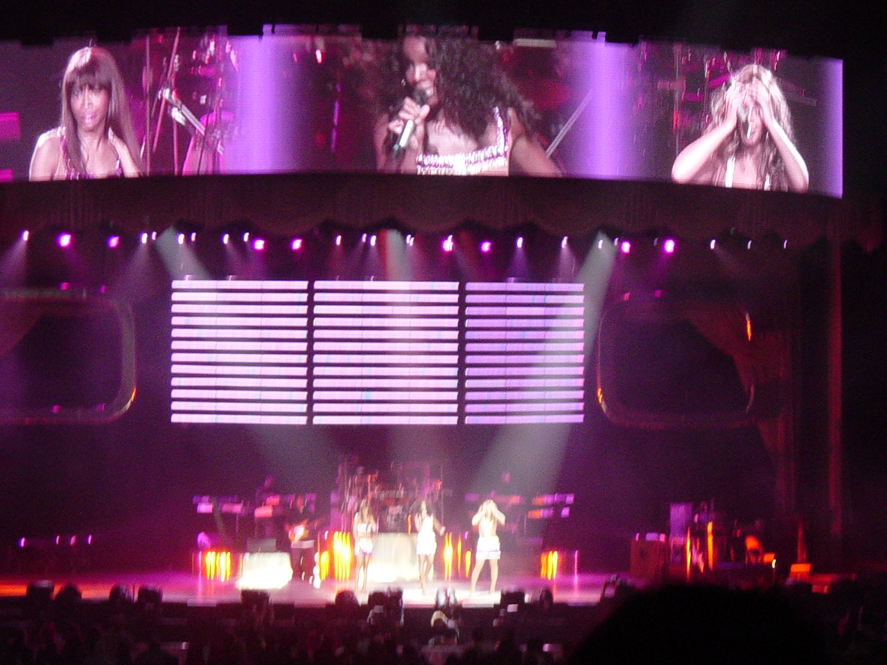 Destiny's Child at a concert in Las Vegas in 2005.